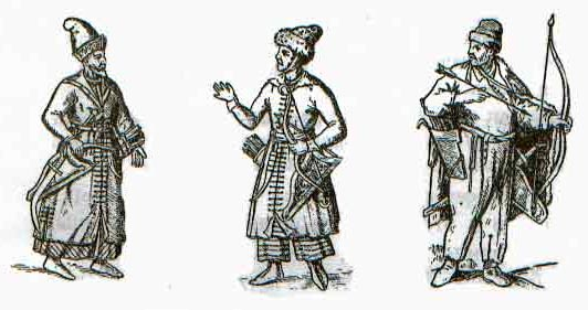 Kazan Khanate military. Source of "European gravure" is not certain, but likely to be a work by Adam Olearius.